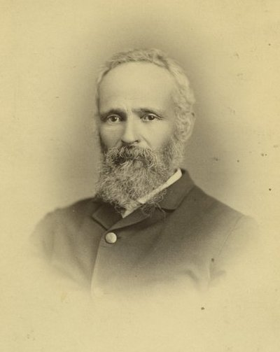 Portrait of August Bondi, a John Brown's associate, Kansas Historical Society